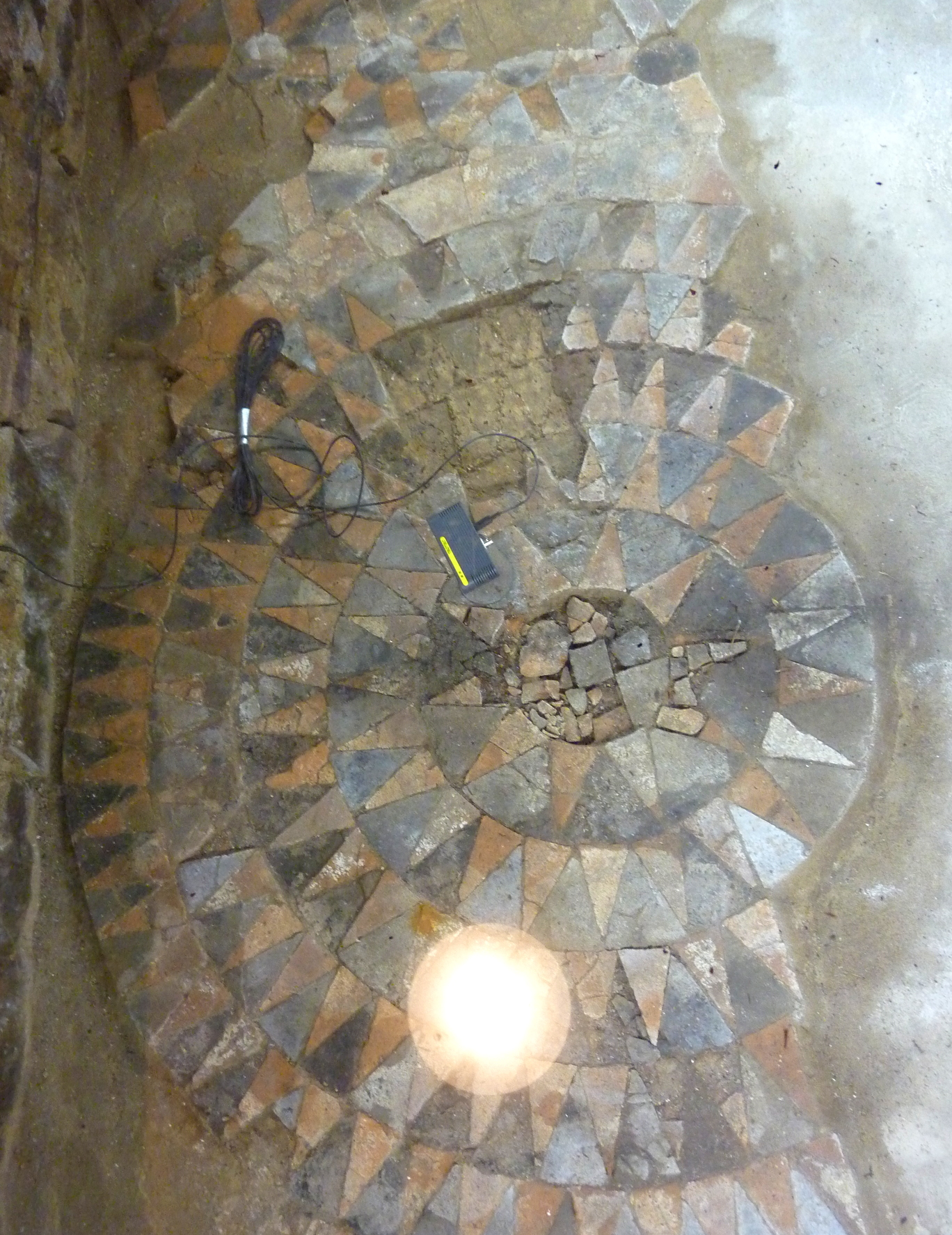 City of Siegen (Westphalia, Germany): Medieval St. Martin’s church (Martinikirche) on the Siegberg mountain in the center of town